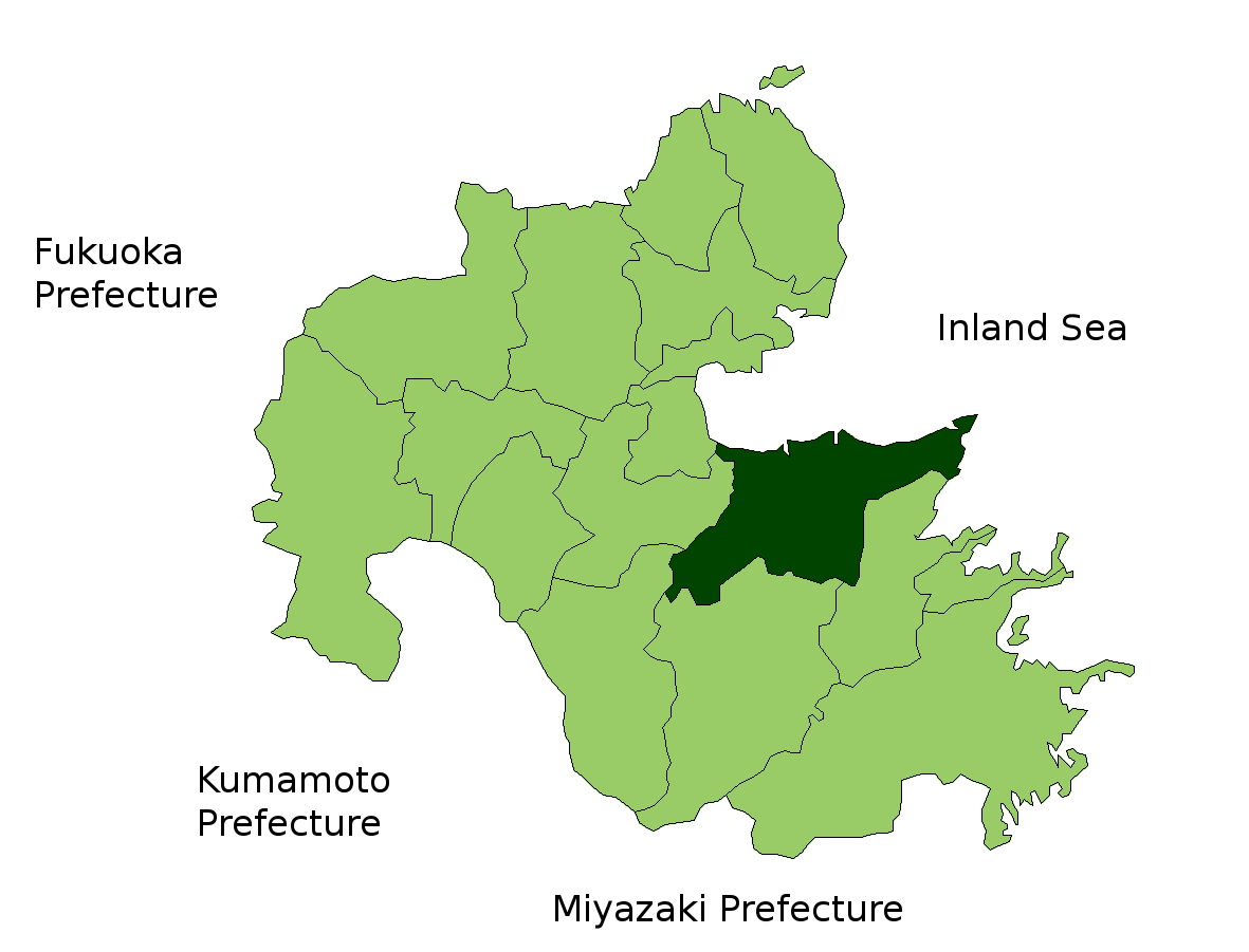 Location Map of Oita in Oita Prefecture, Japan